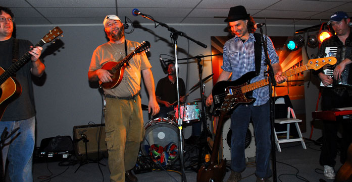 The Gourds, Austin Texas, February 12, 2007, by photographer Steve Hopson. See more photos at .